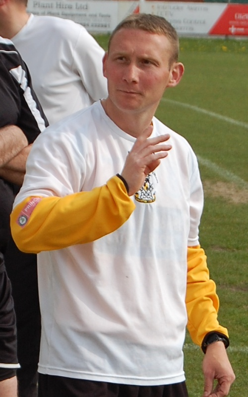 Photograph of the Player-Manager of Carmarthen Town, during the 09/10 Welsh Premier League Season.